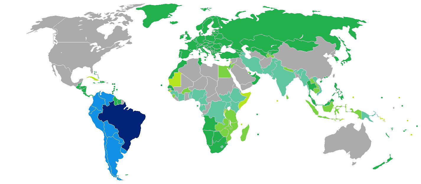 Visa requirements for Brazilian citizens Brazil Passport not required. Travel with a Brazilian identity card Visa free Visa issued upon arrival eVisa Visa available both on arrival or online Visa required